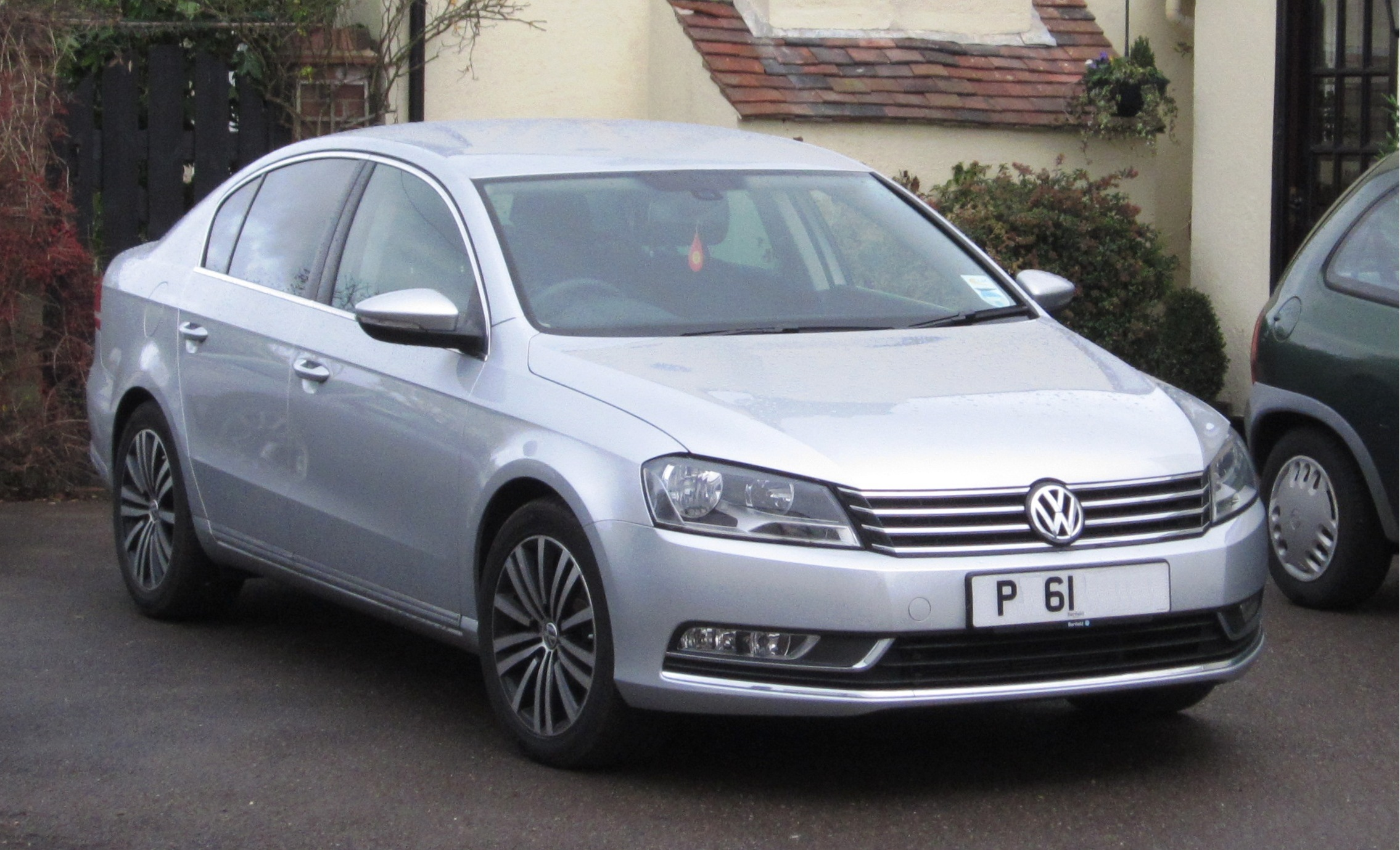 Volkswagen Passat B7 Diesel